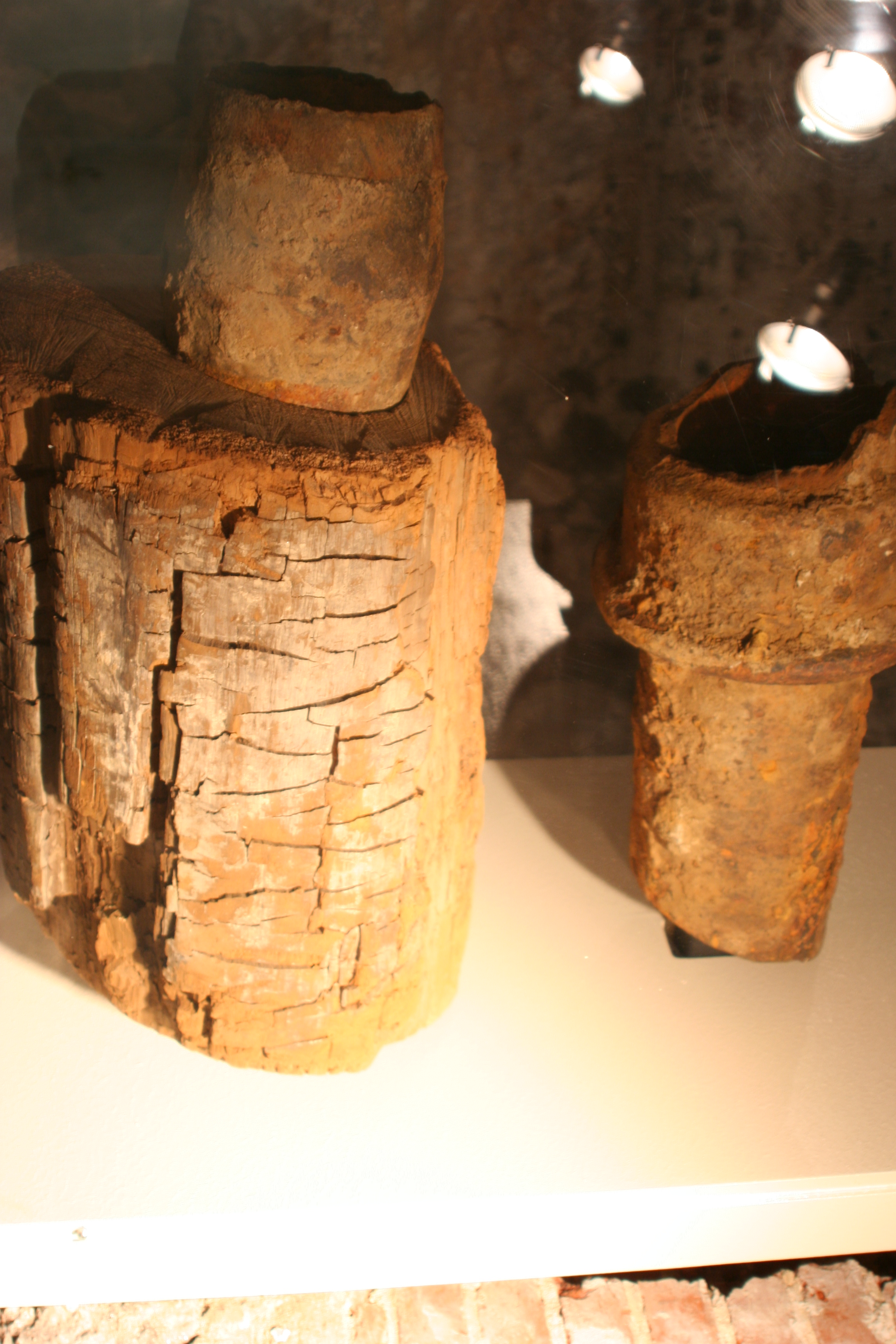 Examples of old water mains including a wooden one on display at the Fairmount Water Works.